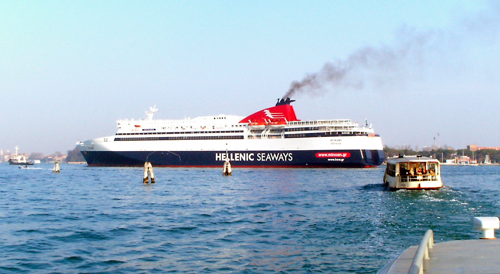 Ferry Ariadne of Hellenic Seaways/Minoans Lines in Venice IMO Number: 9135262 MMSI Number: 240580000 Callsign: SVST Length: 196 m Beam: 27 m